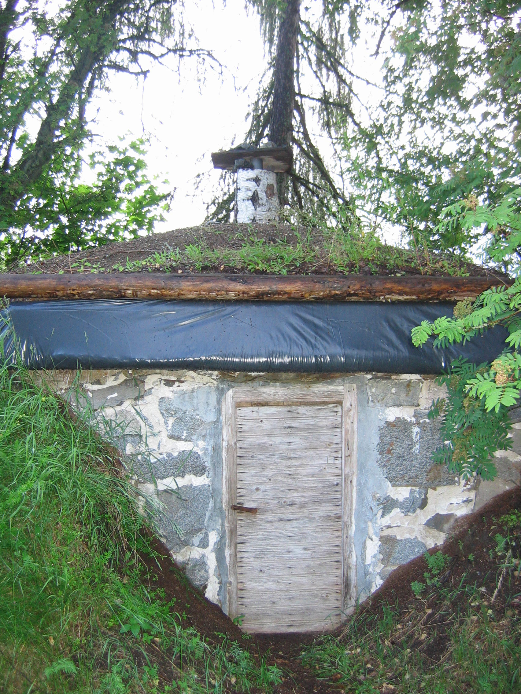 A cellar in the garden of a Finnish farmhouse.